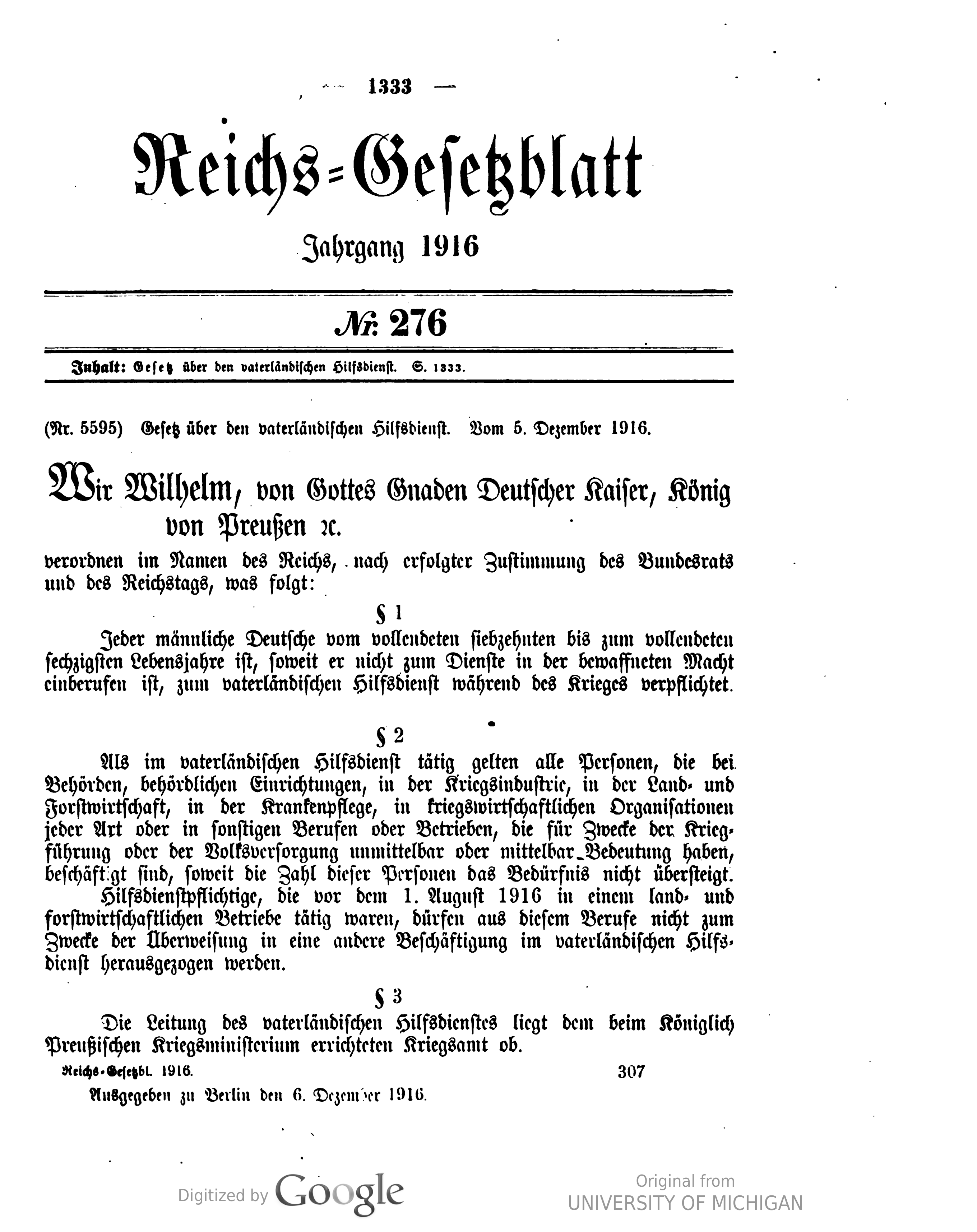 Scan from the Imperial Law Gazette of Germany, 1916